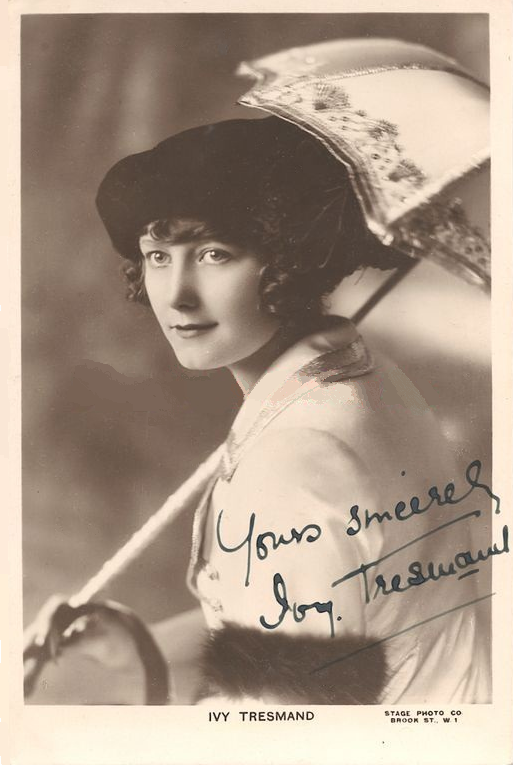 Portrait of Ivy Tresmand (1898–1980), English actress and singer, signed postcard